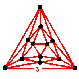 120-cell vertex figure